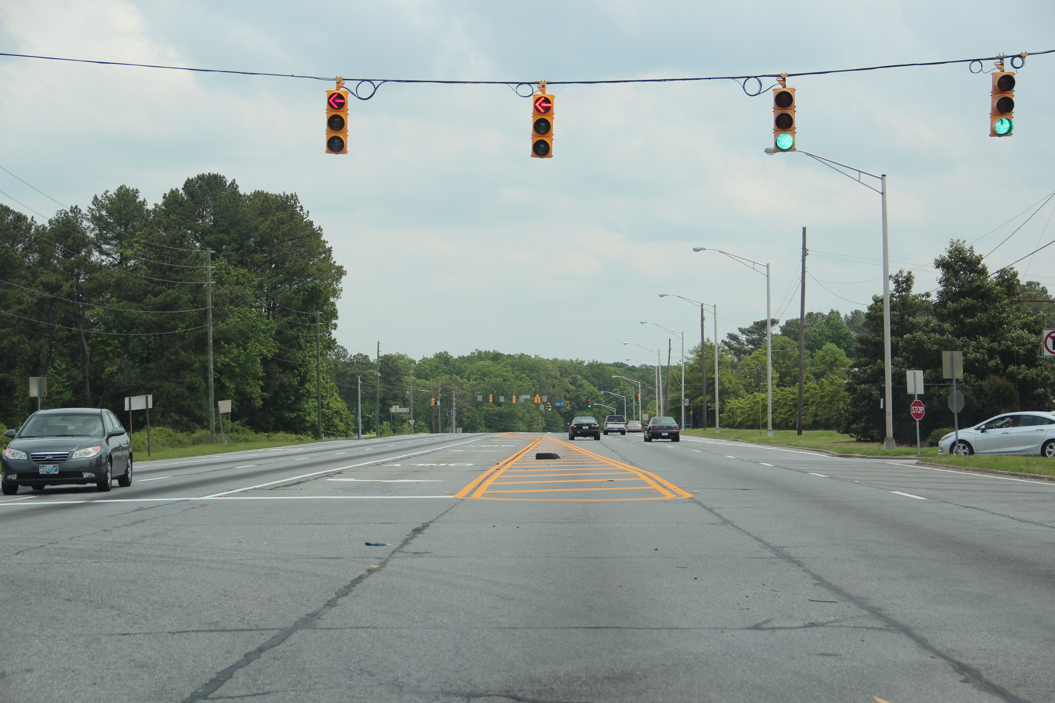 Georgia State Route 280 in Cobb County near Dobbins AFB